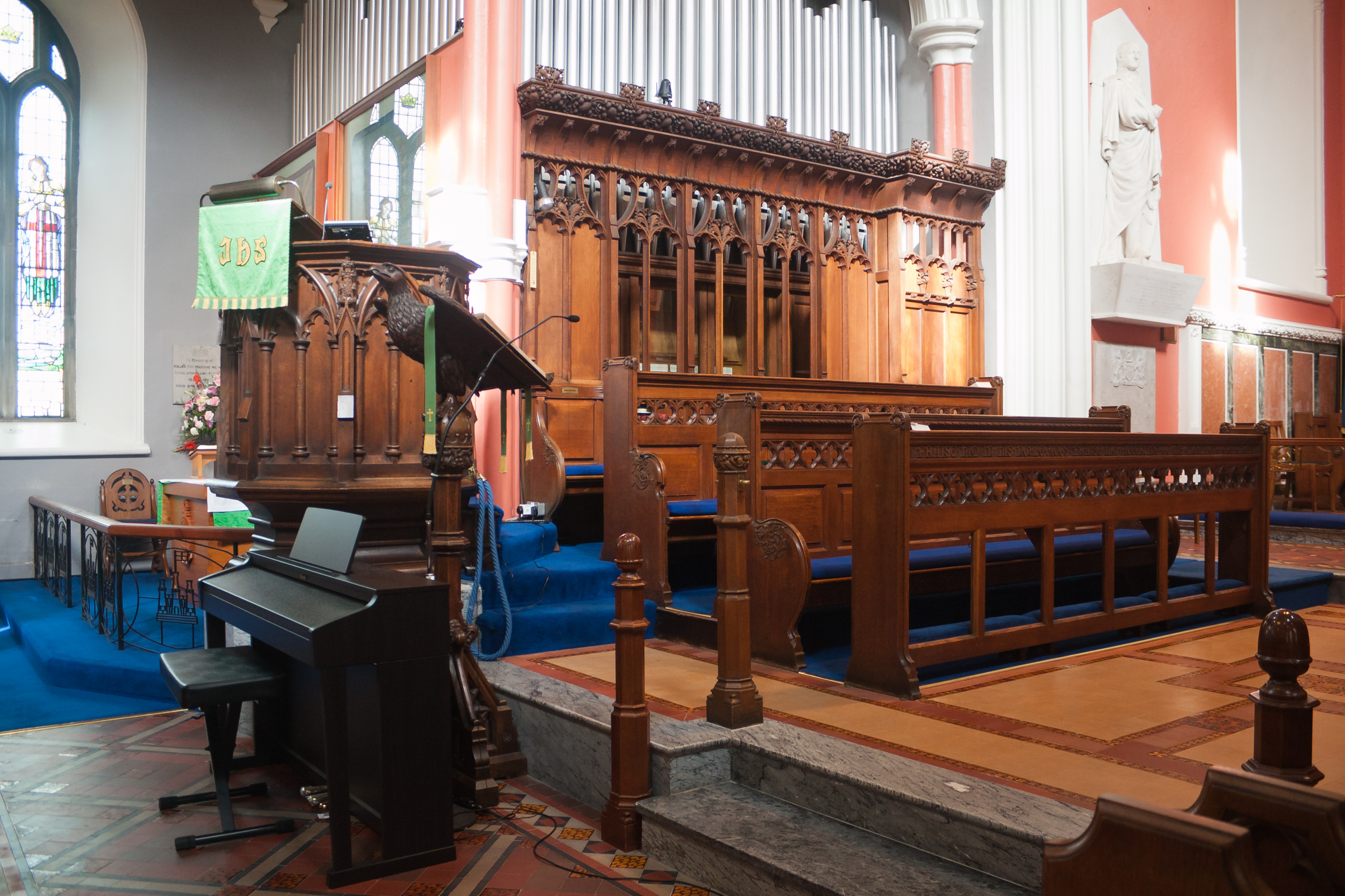 Choir stalls, organ, and pulpit on the northern side of the choir.